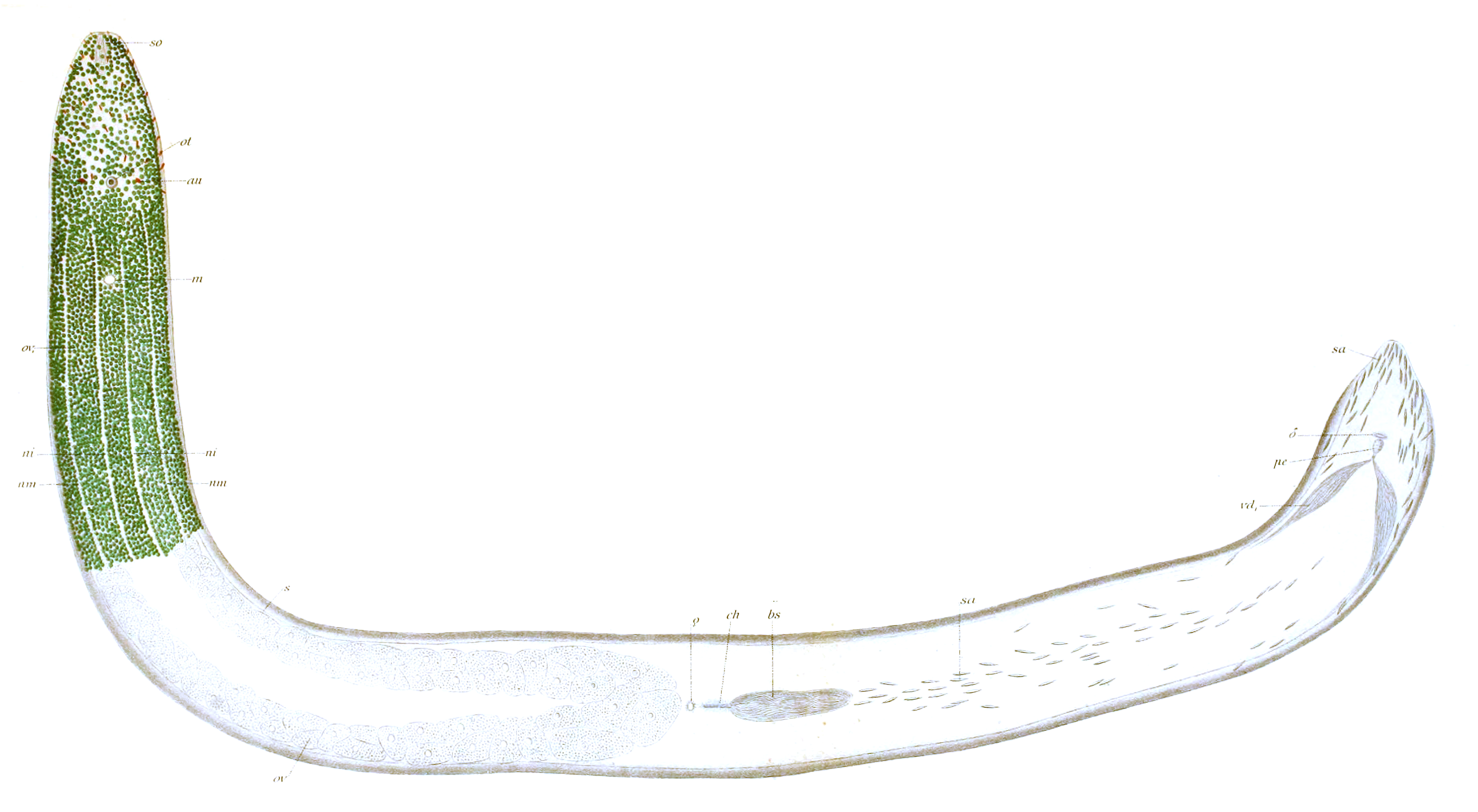 Symsagittifera roscoffensis (Aceola: Sagittiferidae). The designation can be found here.